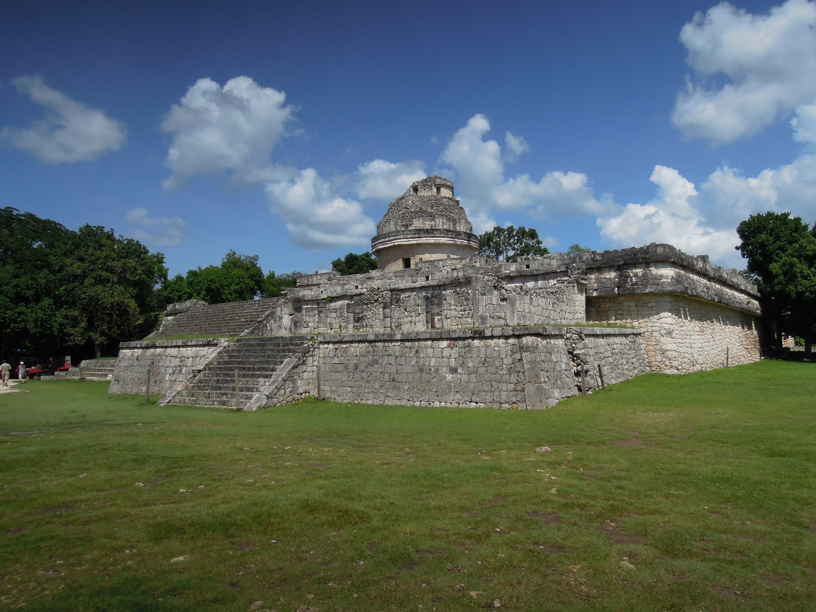 El Caracol ("The Snail") is located to the north of Las Monjas. It is a round building on a large square platform. It gets its name from the stone spiral staircase inside. The structure, with its unusual placement on the platform and its round shape (the others are rectangular, in keeping with Maya practice), is theorized to have been a proto-observatory with doors and windows aligned to astronomical events, specifically around the path of Venus as it traverses the heavens